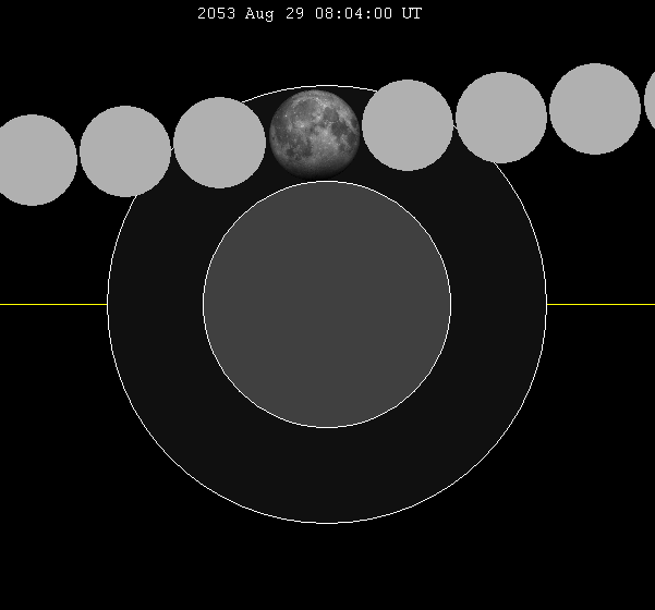 August 2053 lunar eclipse chart of moon's penumbral lunar eclipse path through the earth's shadow. thumb